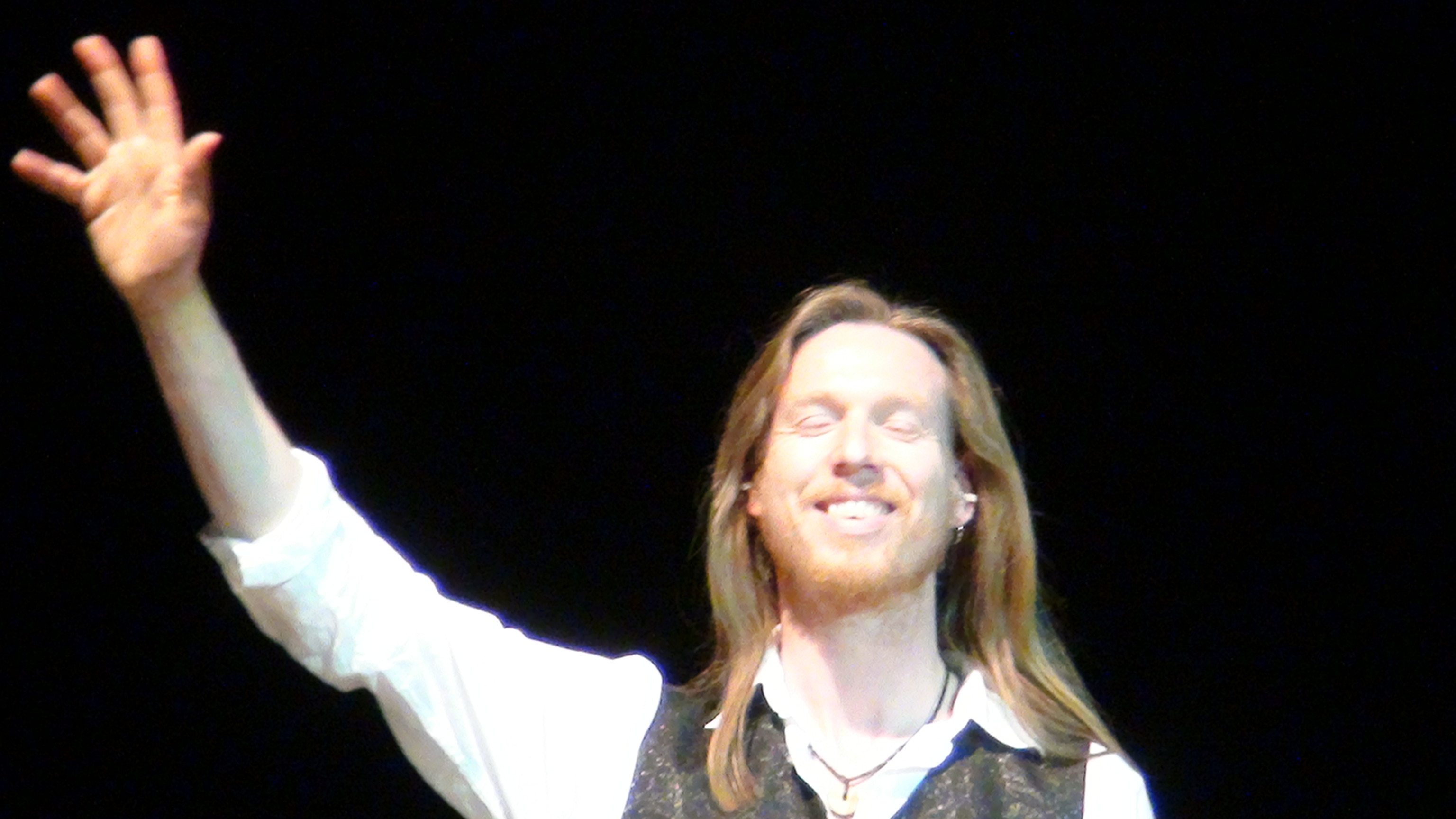 Photo taken by me from the second row of the HSBC Brasil Hall audience at São Paulo Yes show on 28 November 2010.